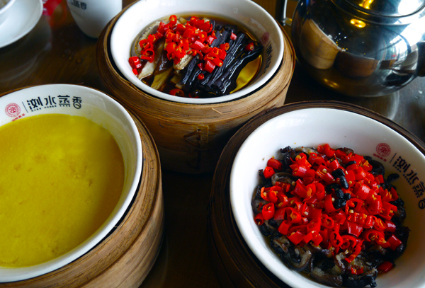 steamed dishes of Liuyang